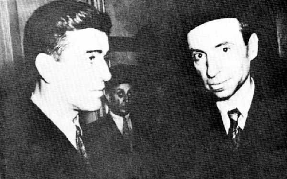 Akram al-Hawrani (left) with Michel Aflaq, founder of the Baath Party, in 1957. The two leaders were vehemently Arab nationalist and worked relentlessly to drive Syria towards Arab nationalism and an alliance with Gamal Abd al-Nasser of Egypt.